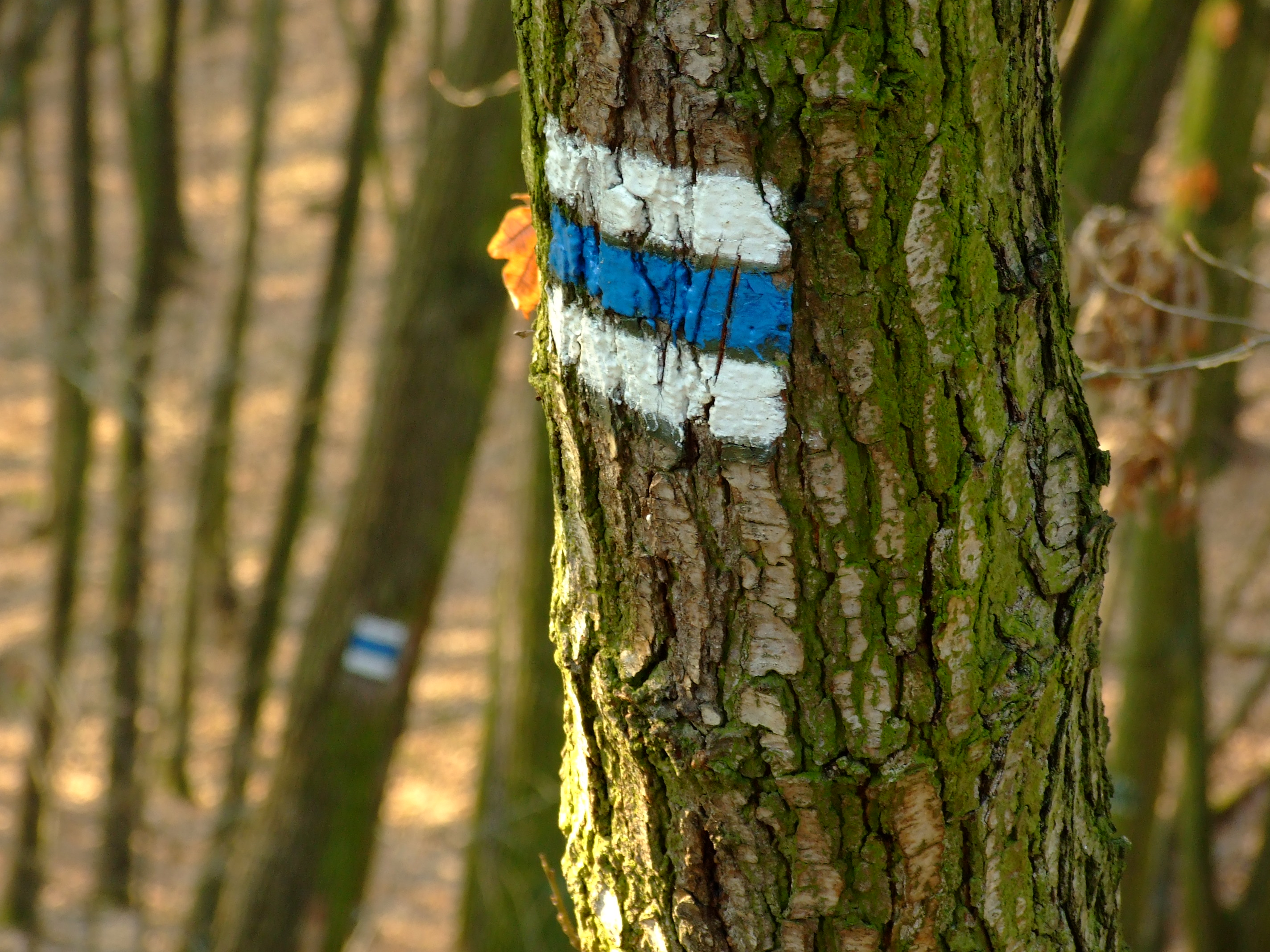 Tourist marking between Roblín and Mořina villages in Český kras Protected landscape area (CHKO). Central Bohemian region, CZhelp